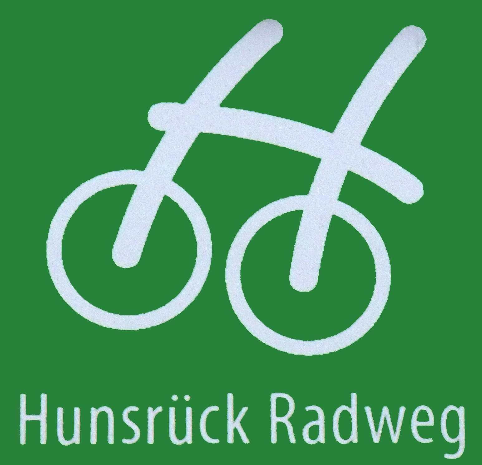 Hunsrück-Radweg